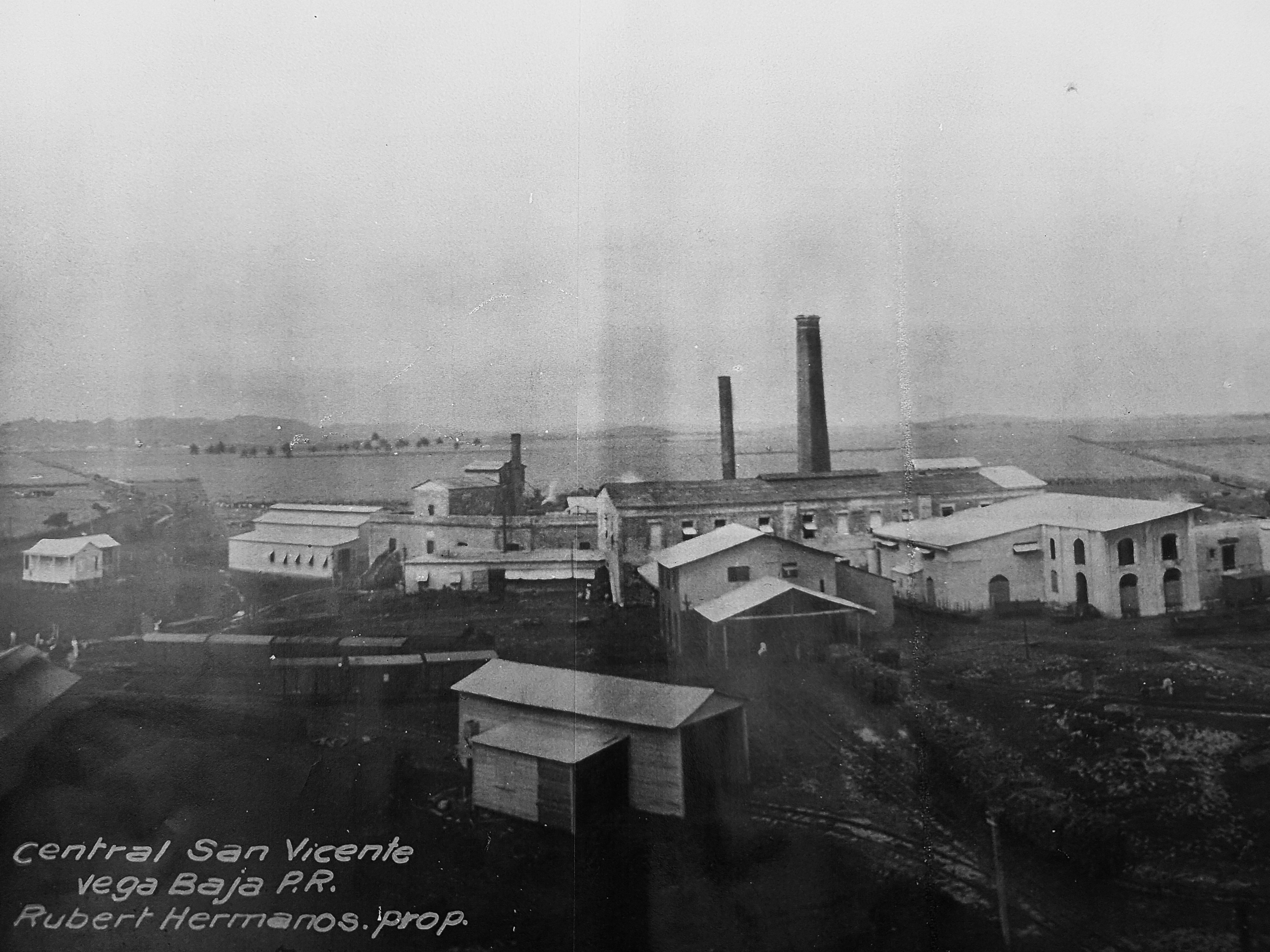 Central San Vicente, the first sugarcane refinery at Puerto Rico, established in 1873 by Leonardo Igaravidez at Vega Baja. Image of c.1897 when it was owned by Rubert Hermanos